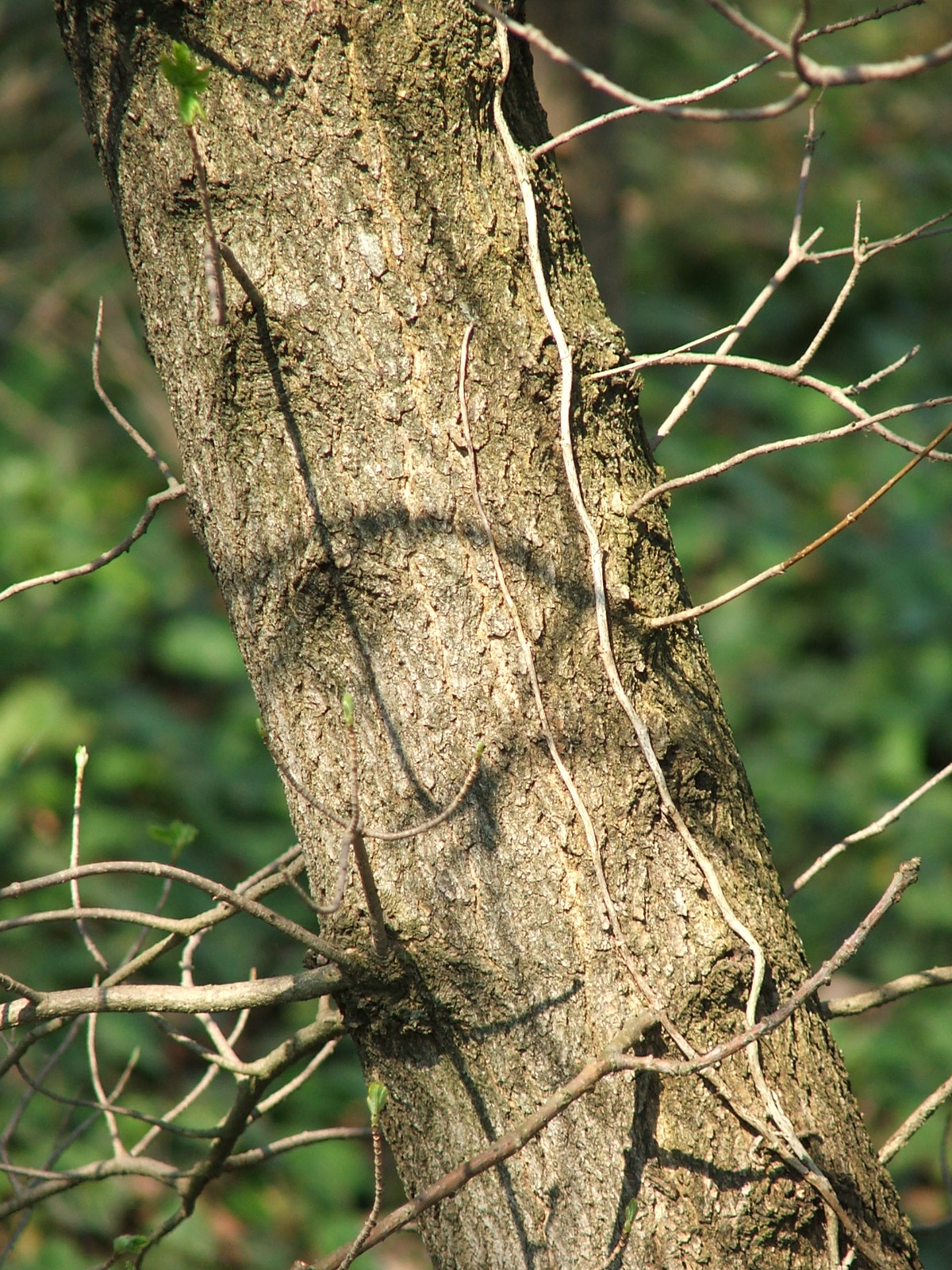 Acer monspessulanum subsp. turcomanicum (Pojark.) E. Murr. bark - MTA Botanic Garden Vácrátót, Hungary